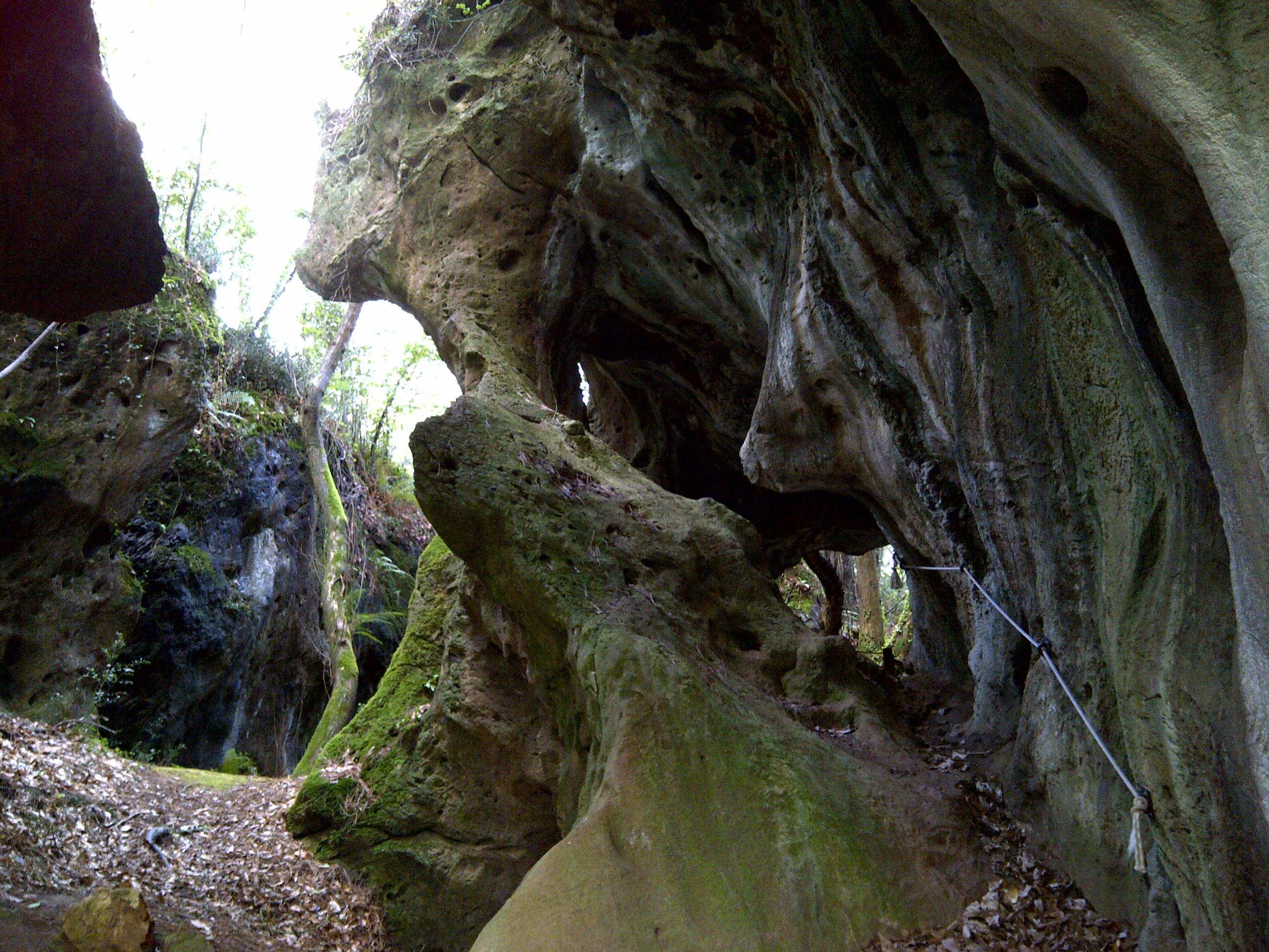 Caves of Andía, Arancedo